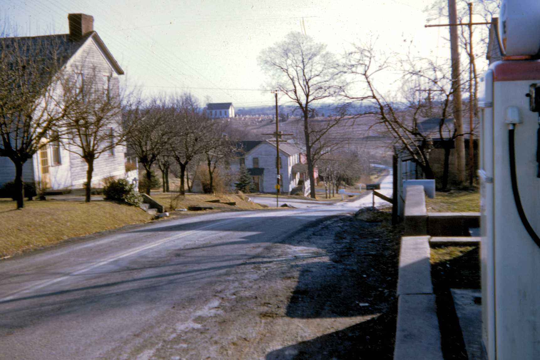 Clarkson, Ohio - looking south towards Clarkson Presbyterian Church in the distance